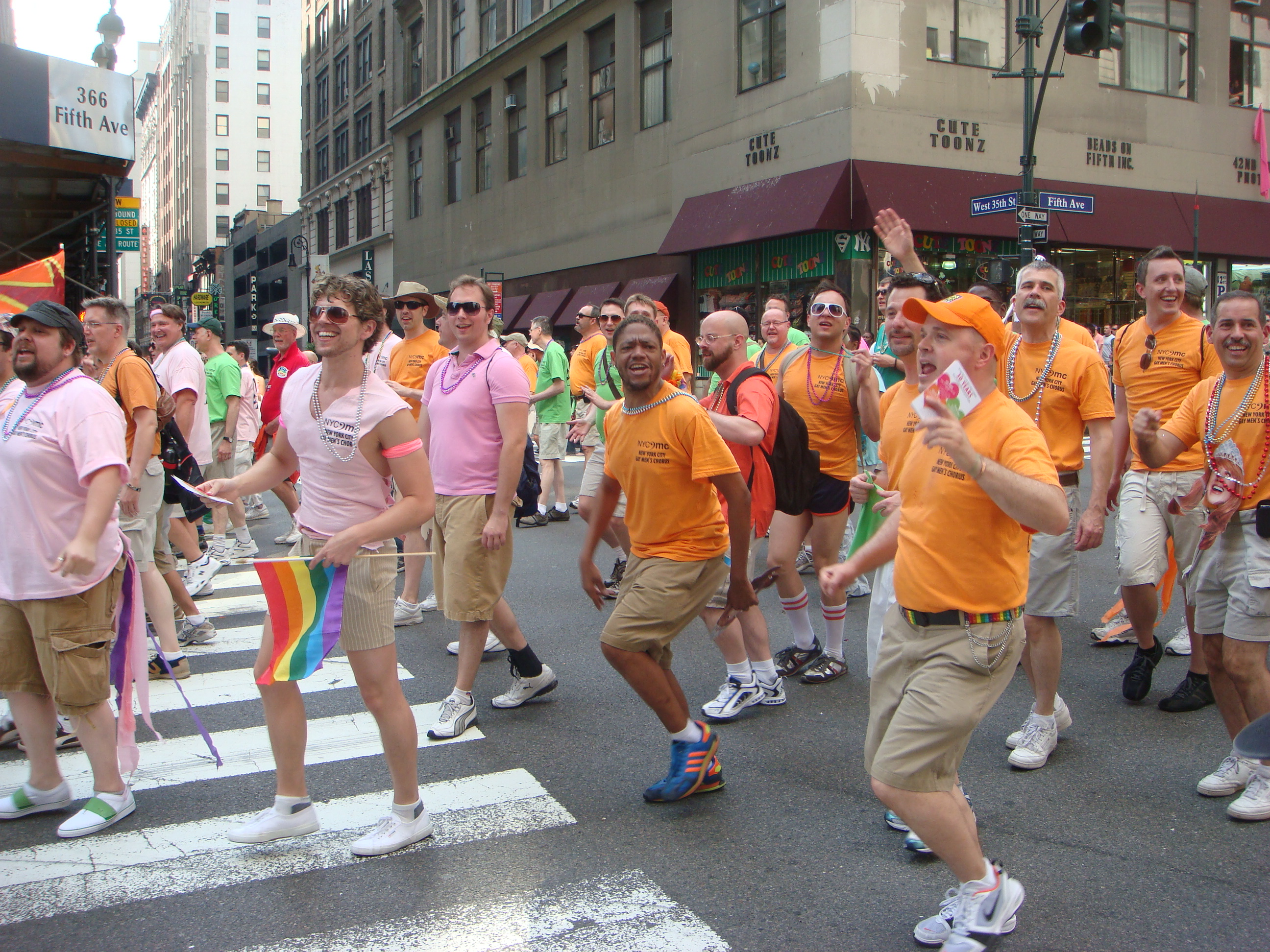 New York City Gay Men's Chorus at the New York City Gay Pride Parade on June 28, 2009.